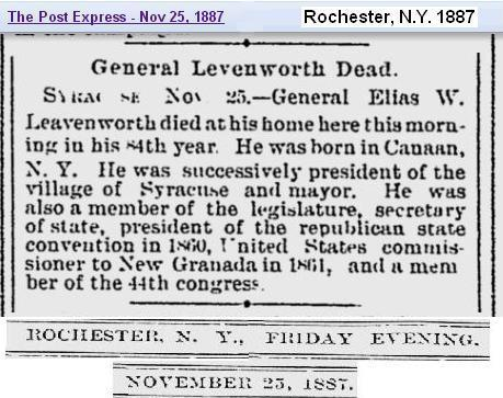 Death notice in 1887 newspaper - Elias W Leavenworth died at home in his 84th year.